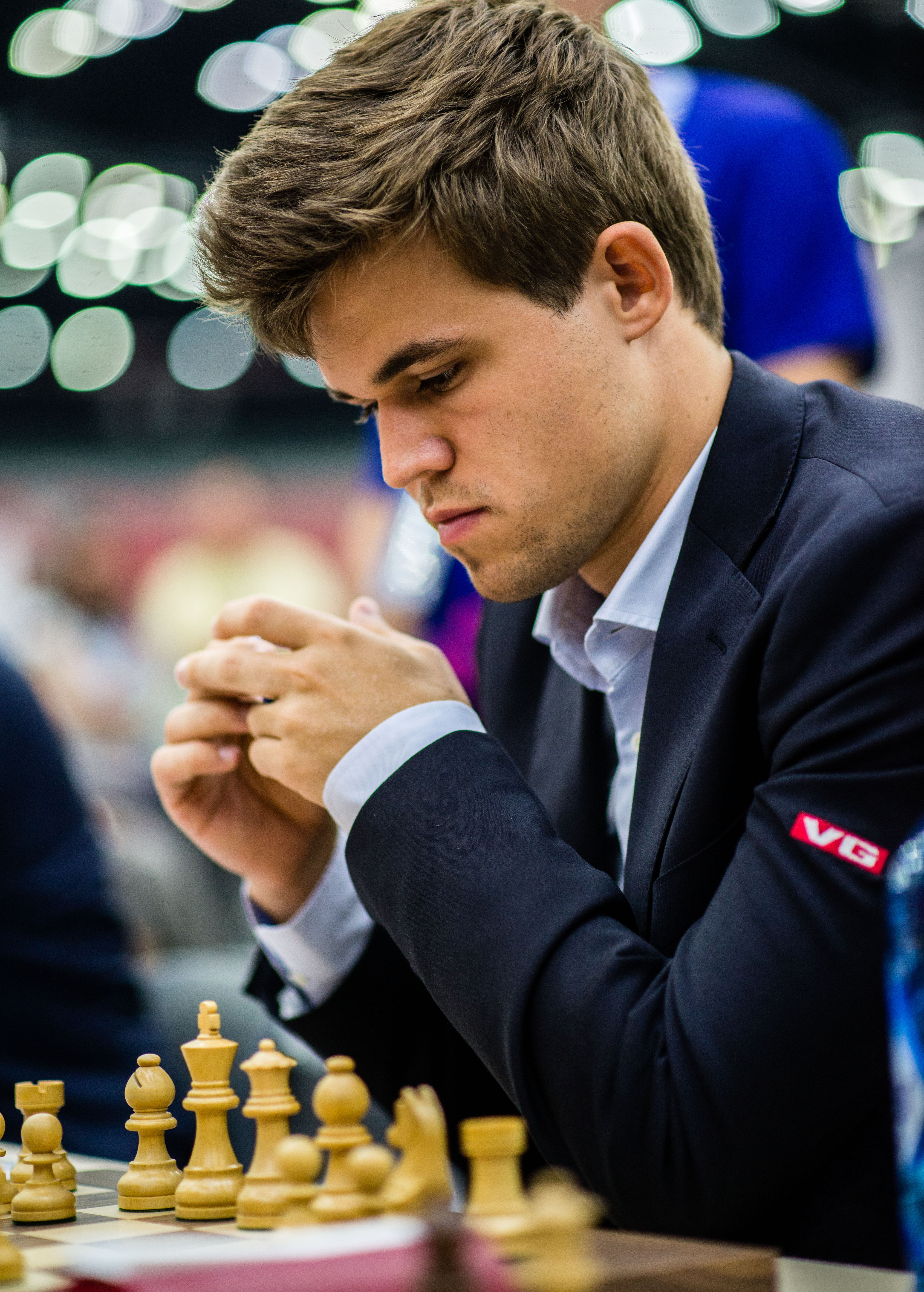 Magnus Carlsen at the 2016 Chess Olympiad. The original image credited Andreas Kontokanis and had a QR code for his website both in the bottom right corner as a watermark block.